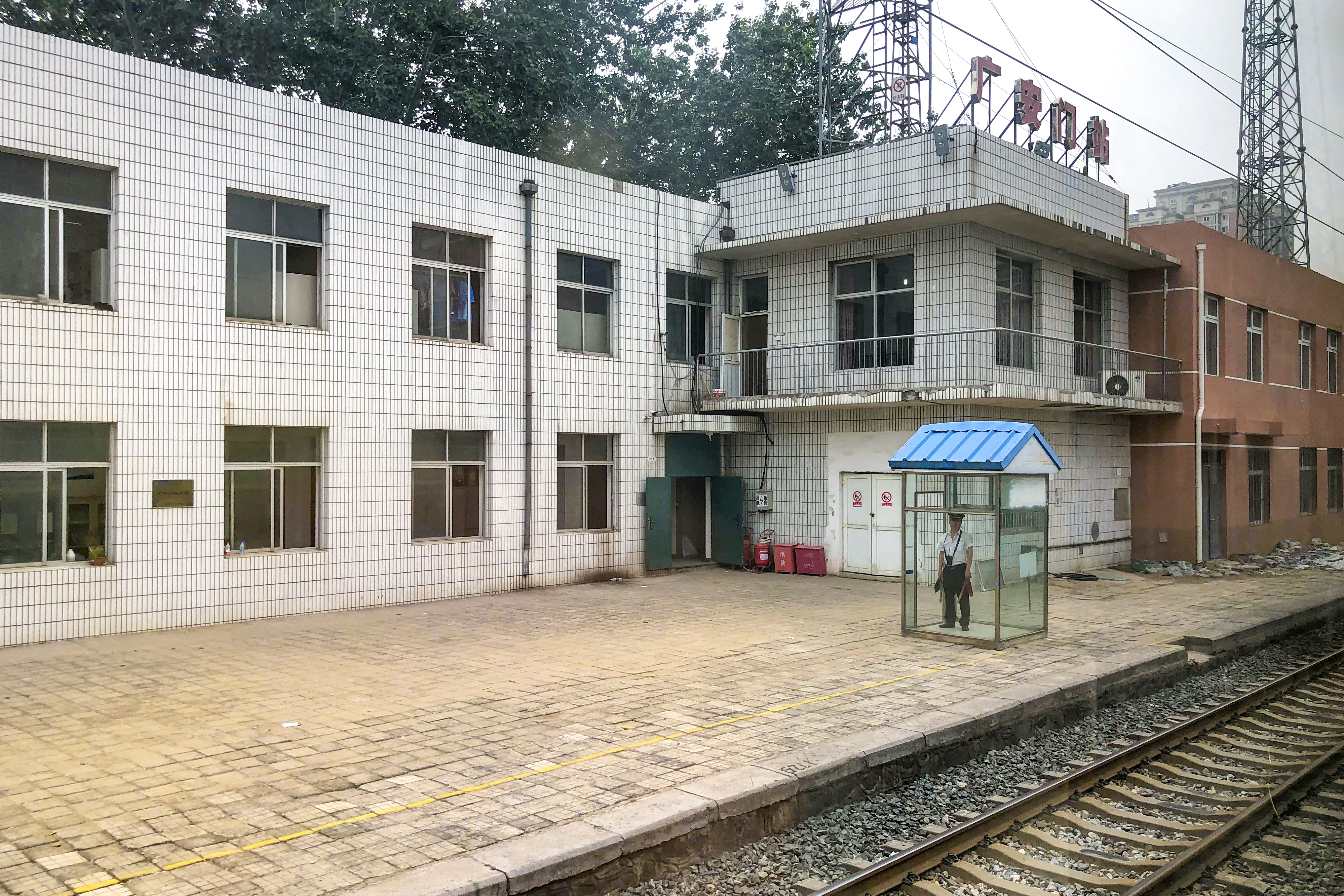 Had the old building been there...